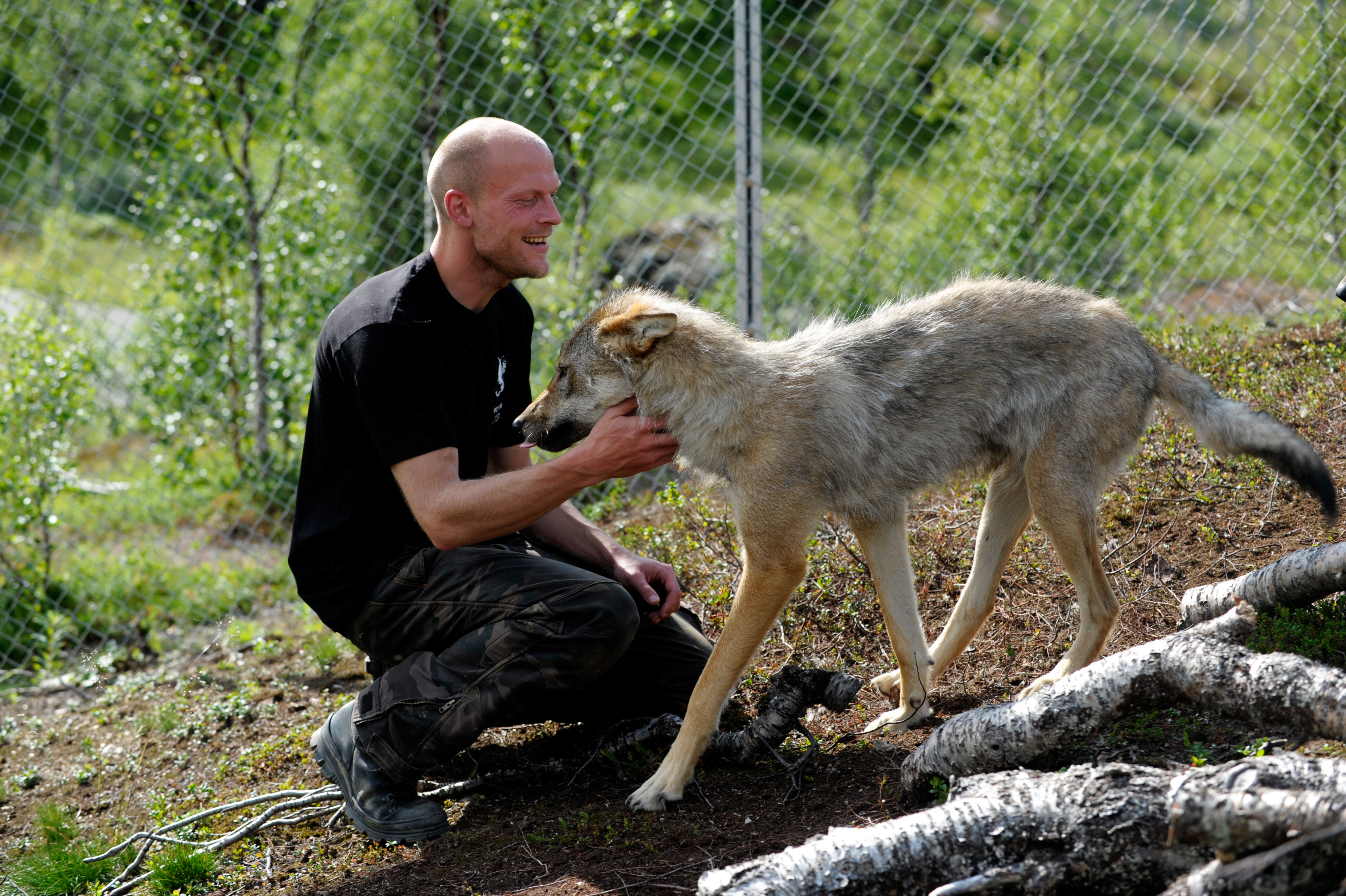 Varg fotograferad på Polar Zoo Norge Keywords: Animals, Nature